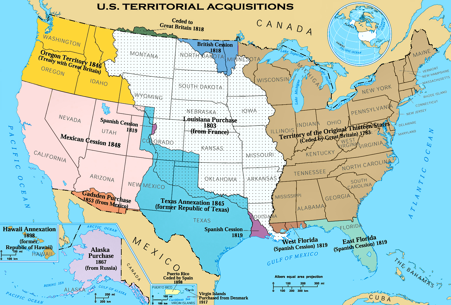 The Territorial acquisitions of the United States, such as the Thirteen Colonies, the Louisiana Purchase, British and Spanish Cession, and so on.